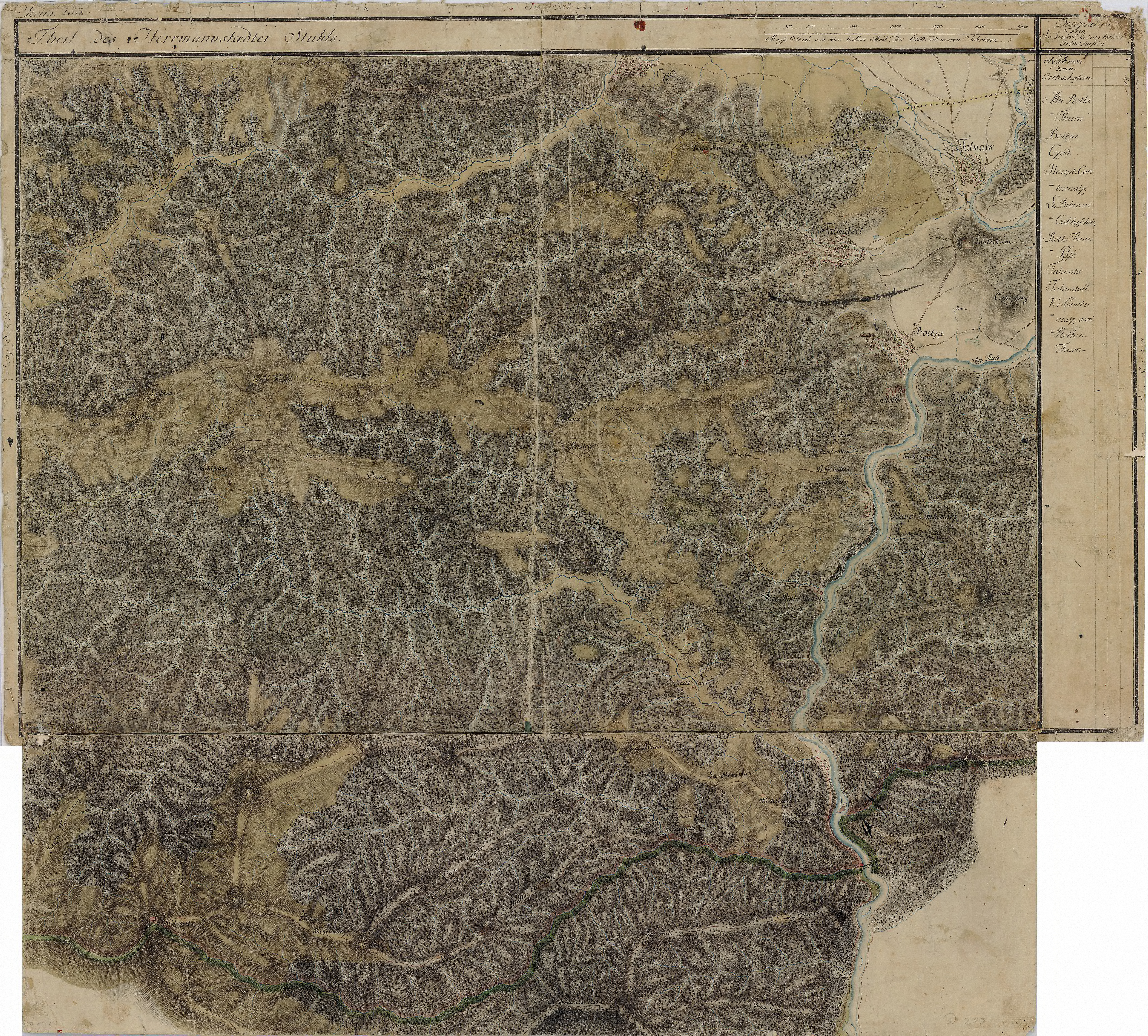 Grand Duchy of Transylvania, 1769-1773. Josephinische Landaufnahme pg.253